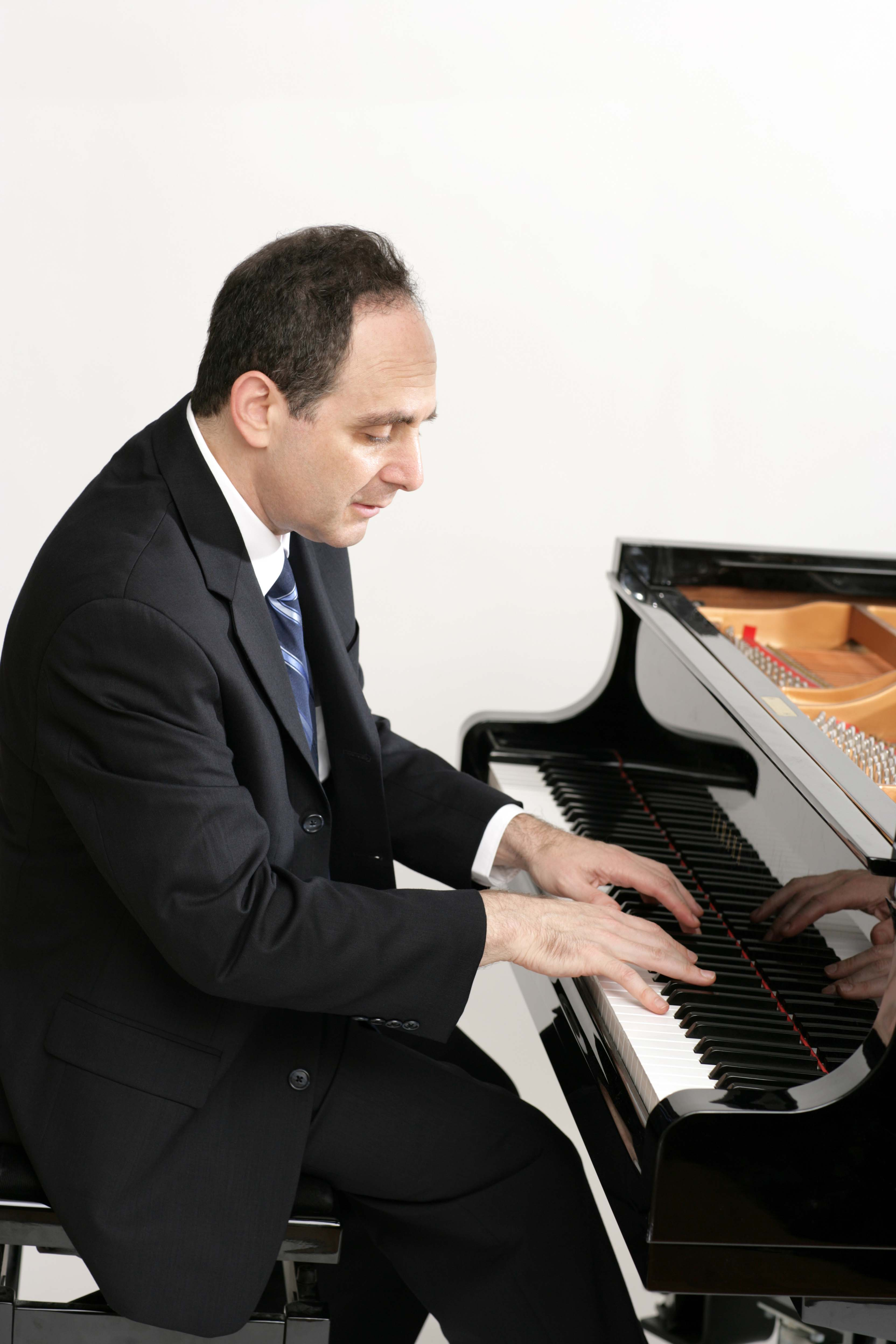 Richard Kogan, American psychiatrist and concert pianist